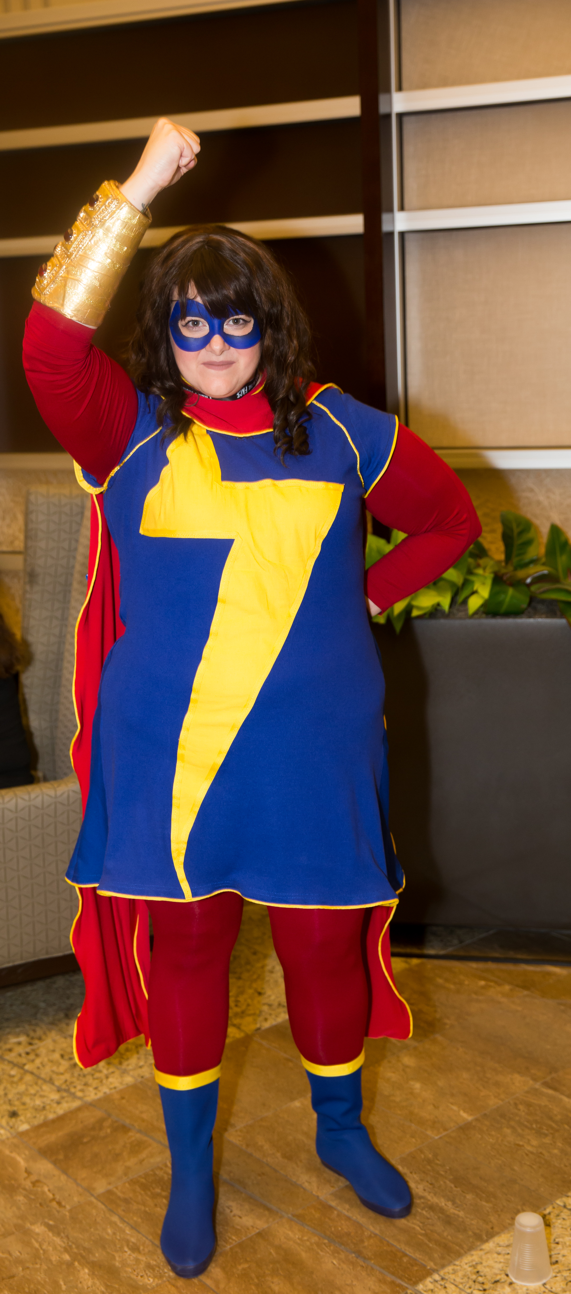 There were a lot of Rubenesque white women dressed as the Kamala Khan version of Ms. Marvel. Like, saw 3 in under 5 minutes. Cosplay at Dragon*Con 2015.